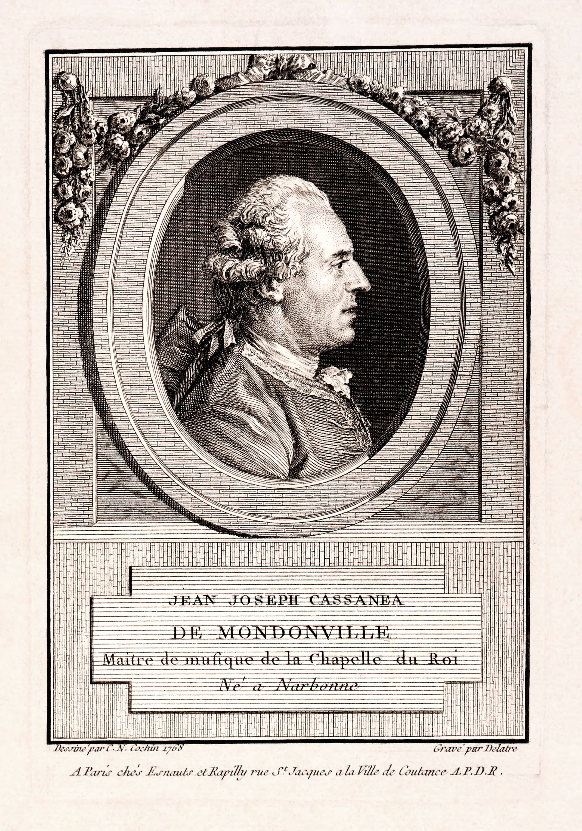 Jean-Joseph de Mondonville (1711-1772), french violonist and composer